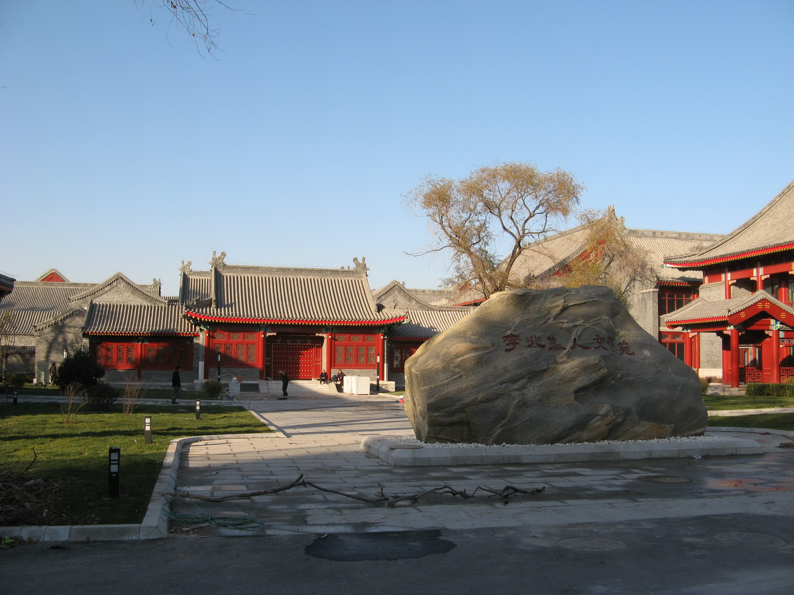 Lee Shau Kee Humanities Buildings, Peking University